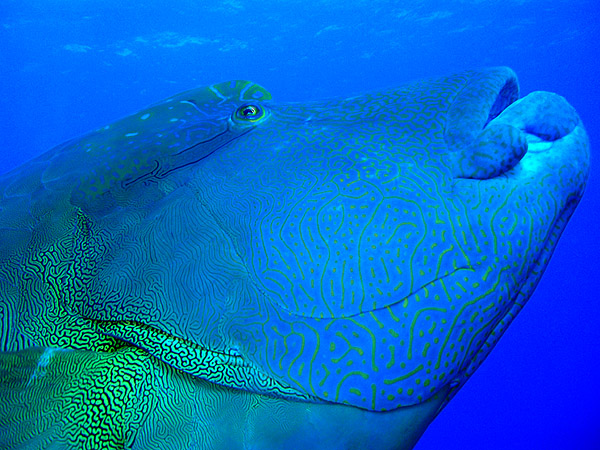 Napoleon fish. Diving in the Red Sea